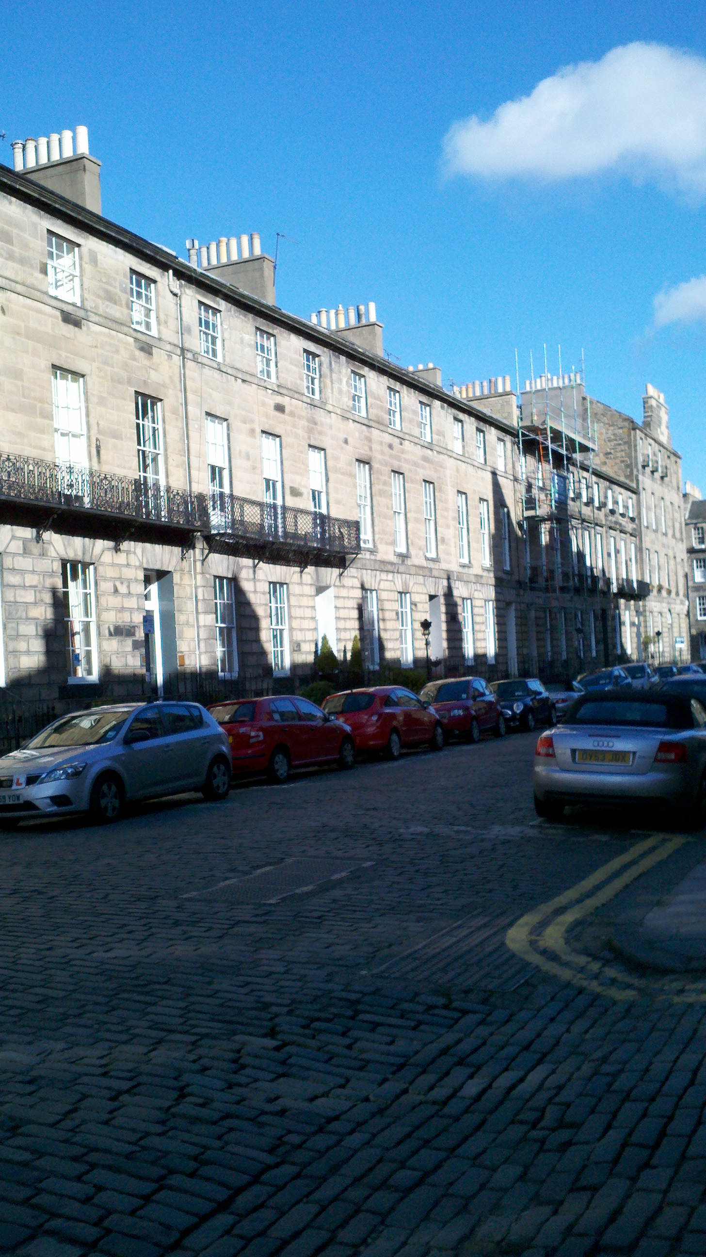 Georgian terraced houses in the West End of Edinburgh.